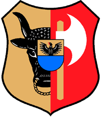 Coat of Arms of Leszno File:POL Leszno COA.svg is a vector version of this file. It should be used in place of this raster image when not inferior. File:Coat of arms of Leszno.png File:POL Leszno COA.svg For more information, see Help:SVG. In other languages